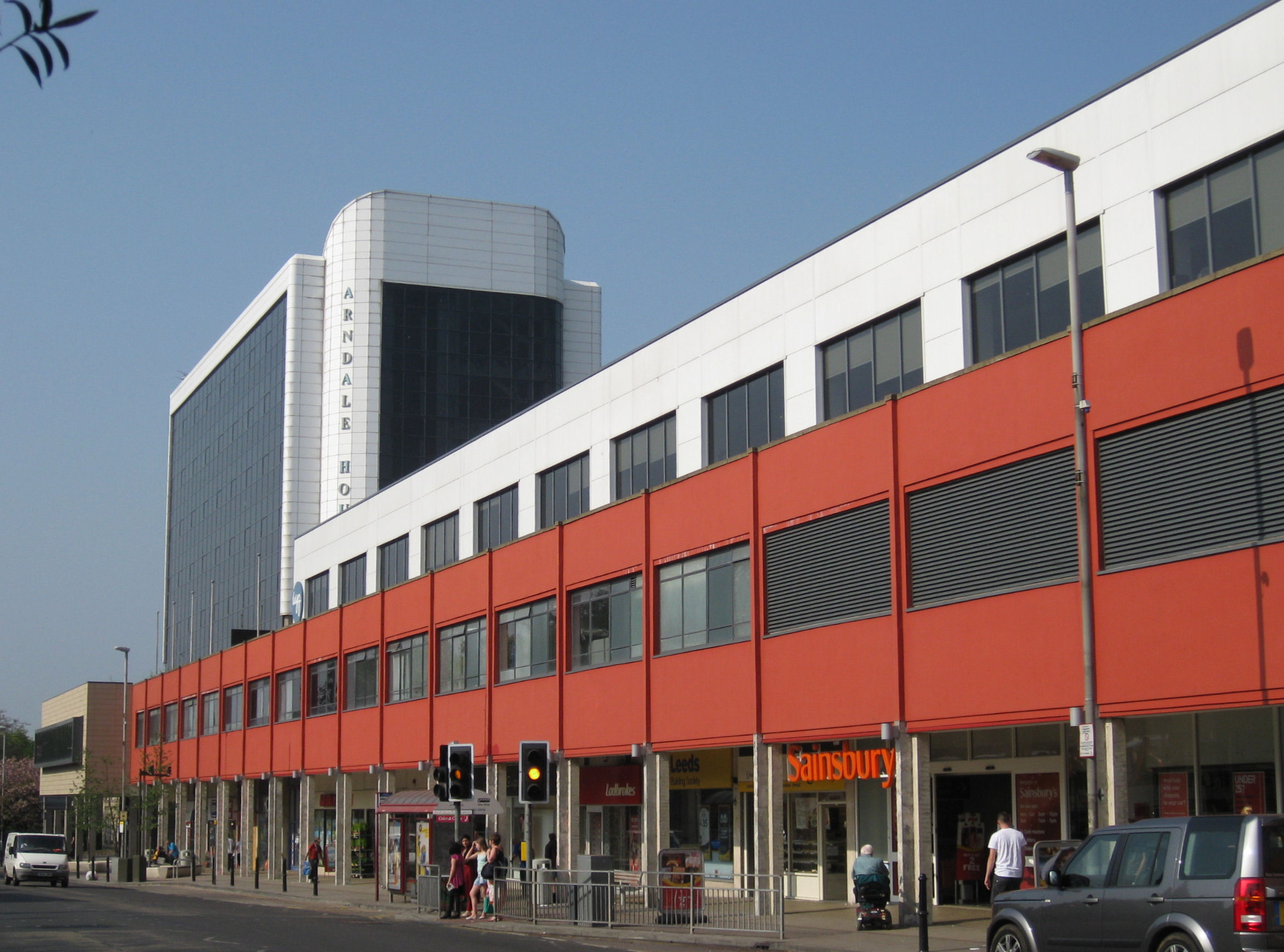 The Arndale Shopping Centre, Otley Road, Headingley, Leeds LS6. Taken near corner of Otley Road and Chapel Street.